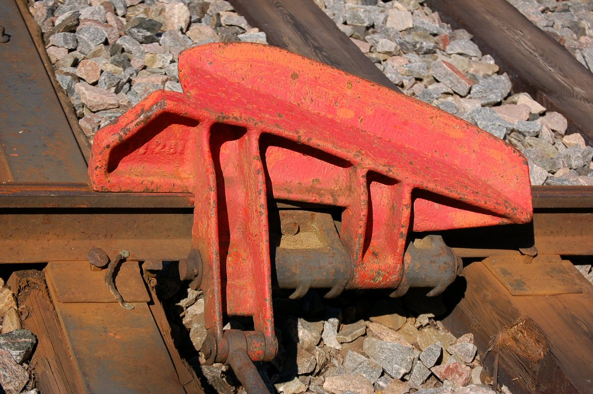 Derail, of standard Finnish type